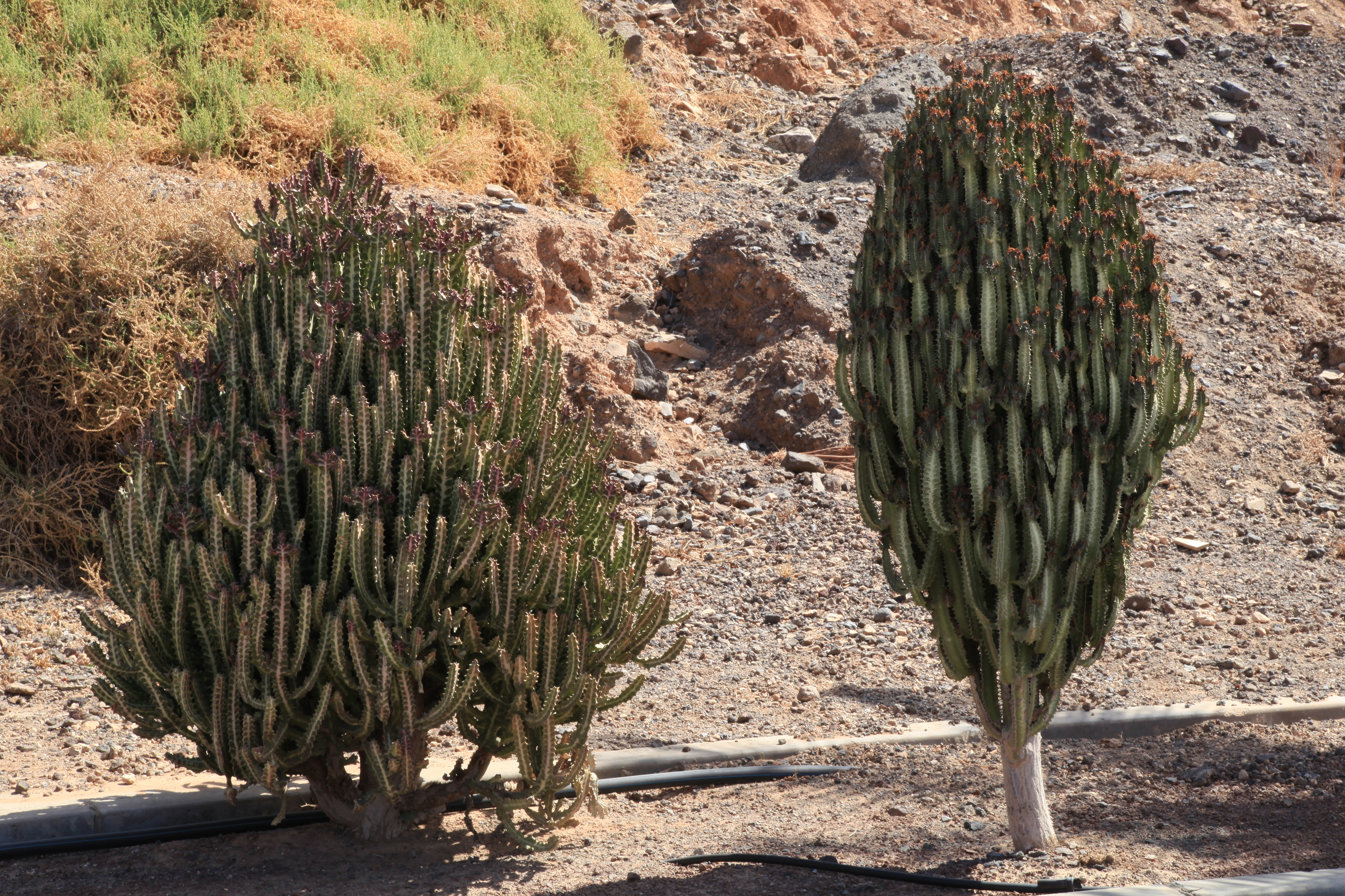 Euphorbia lactea (left hand) and Euphorbia trigona (right hand) grown at Calle Sancho Panza in Morro Jable, Pájara, Fuerteventura, Canary Islands